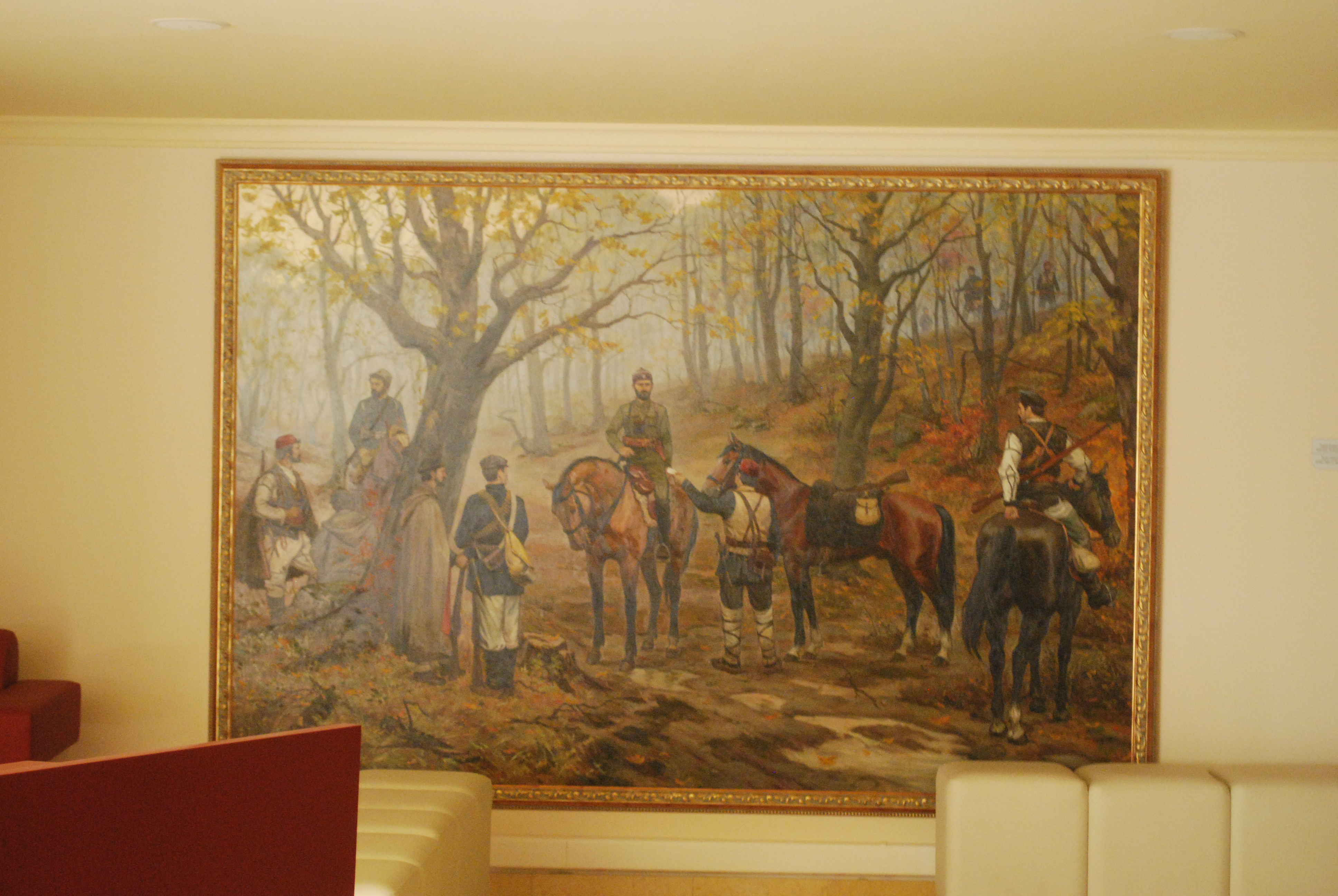 Museum of the Macedonian Struggle for sovereignity and independence - " Museum of VMRO and Museum of victims of communist regime" in Skopje, Macedonia.